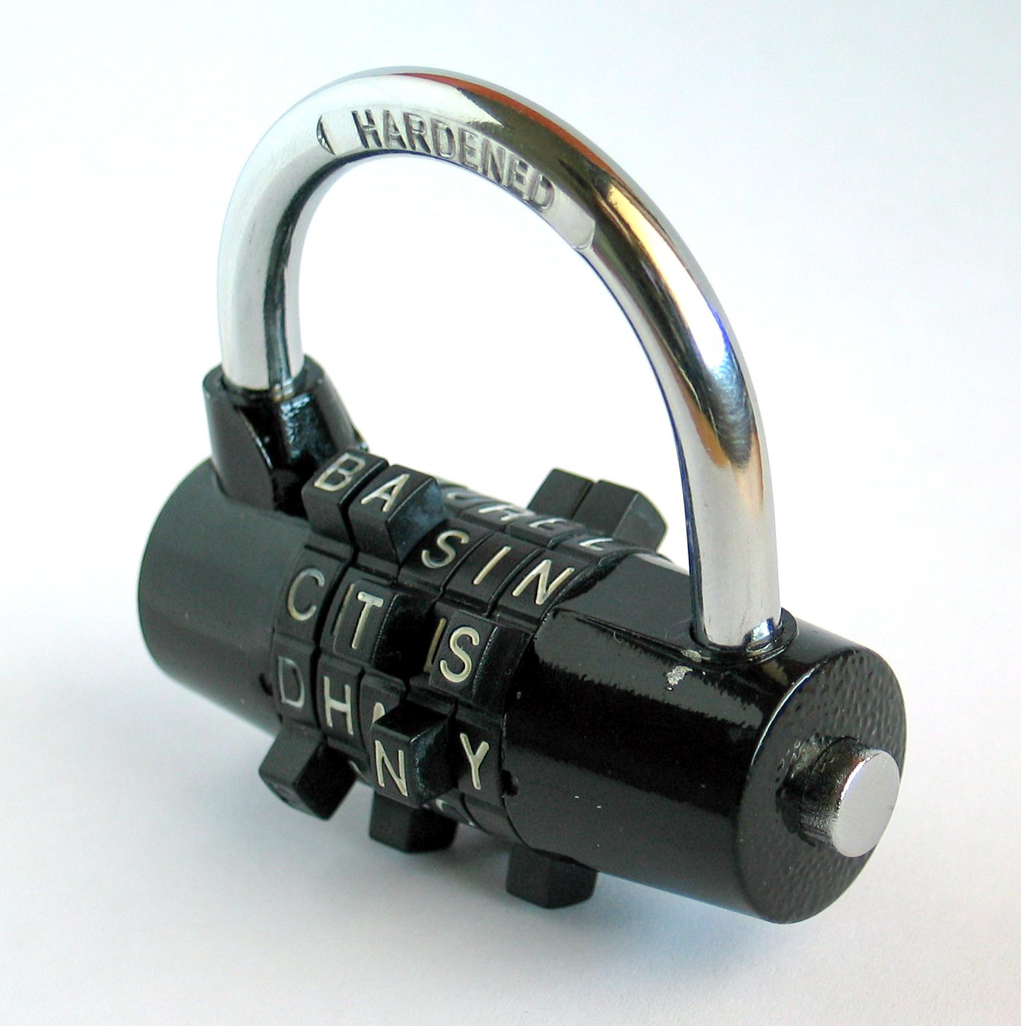 A combination lock with letters.